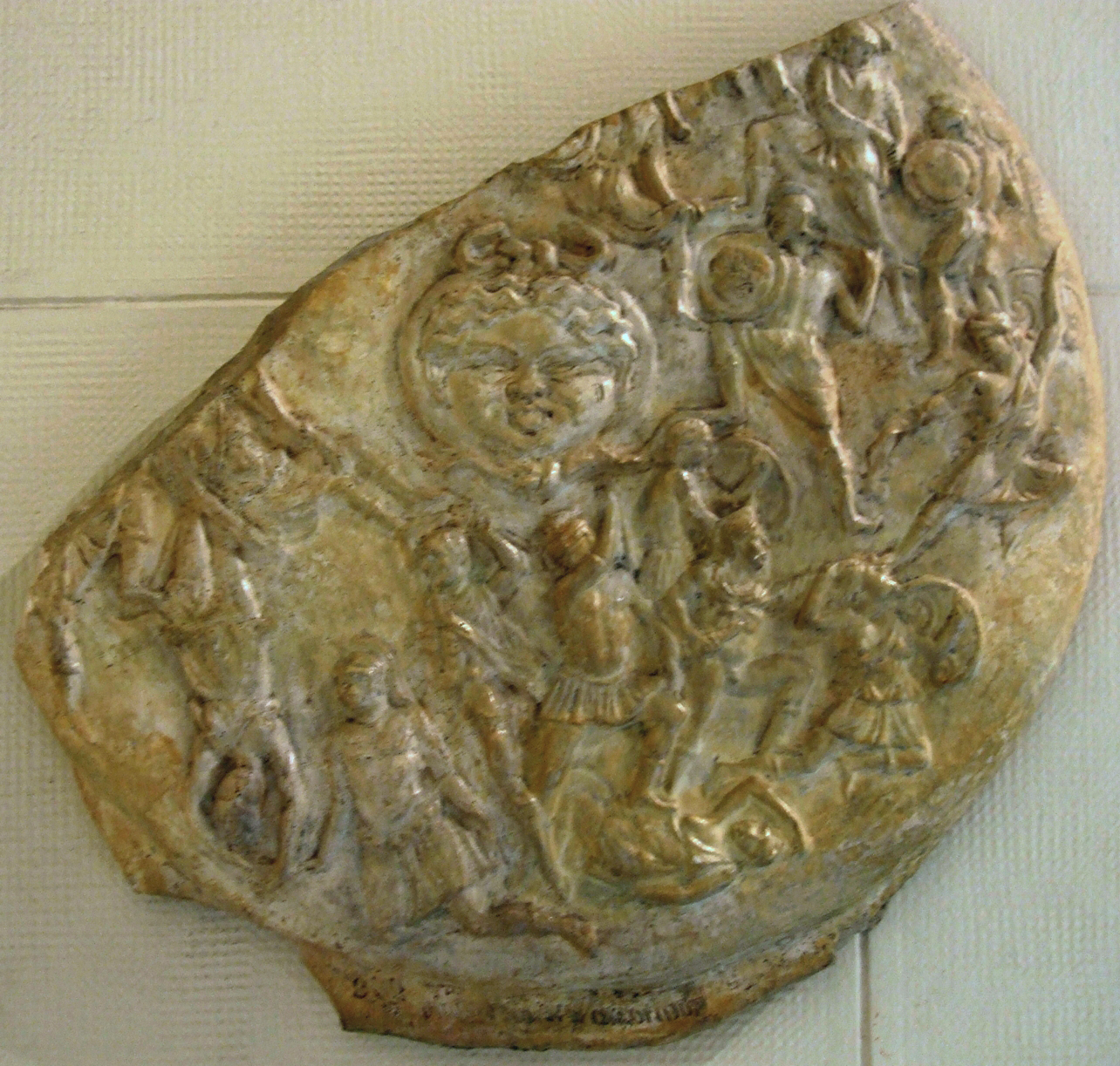 Copy of Athena Parthenos's shield depictind the battle with amazons and Phidias' self-portrait. So called "Strangford Shield" from collection of lord Strangford, London (now British Museum). Photo of plaster cast in Pushkin Museum, Moscow.